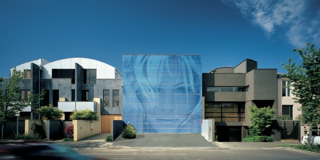 Outside view of the Newman House. for more information